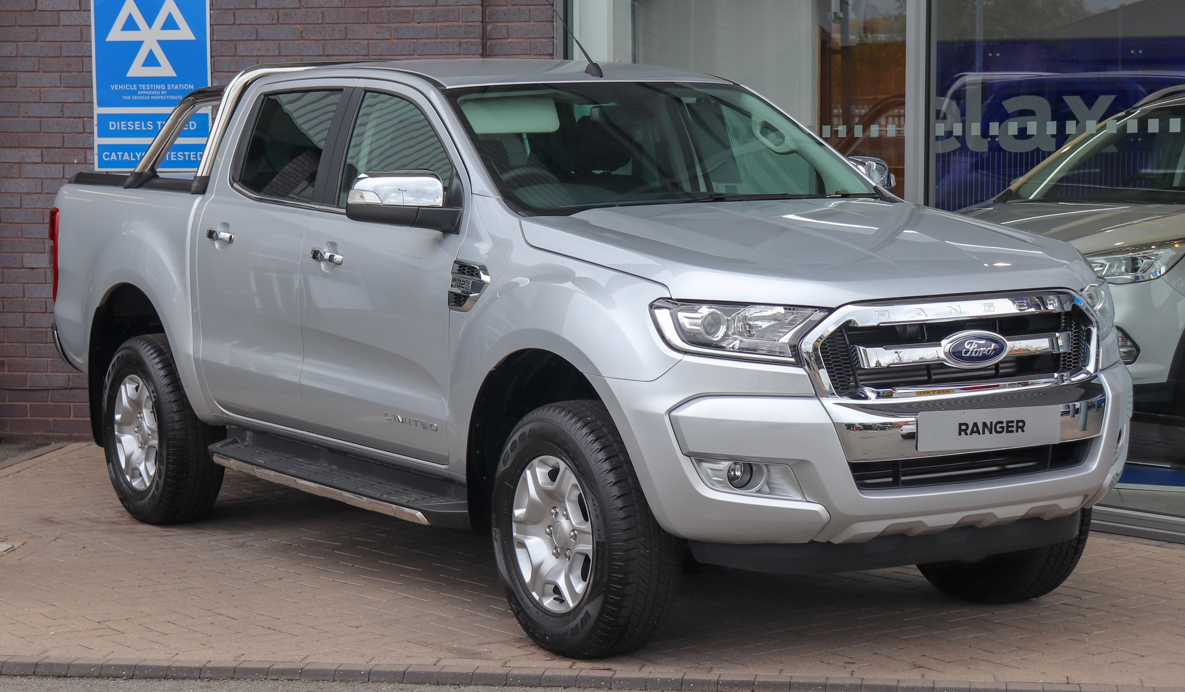 2017 Ford Ranger Limited Taken in Warwick